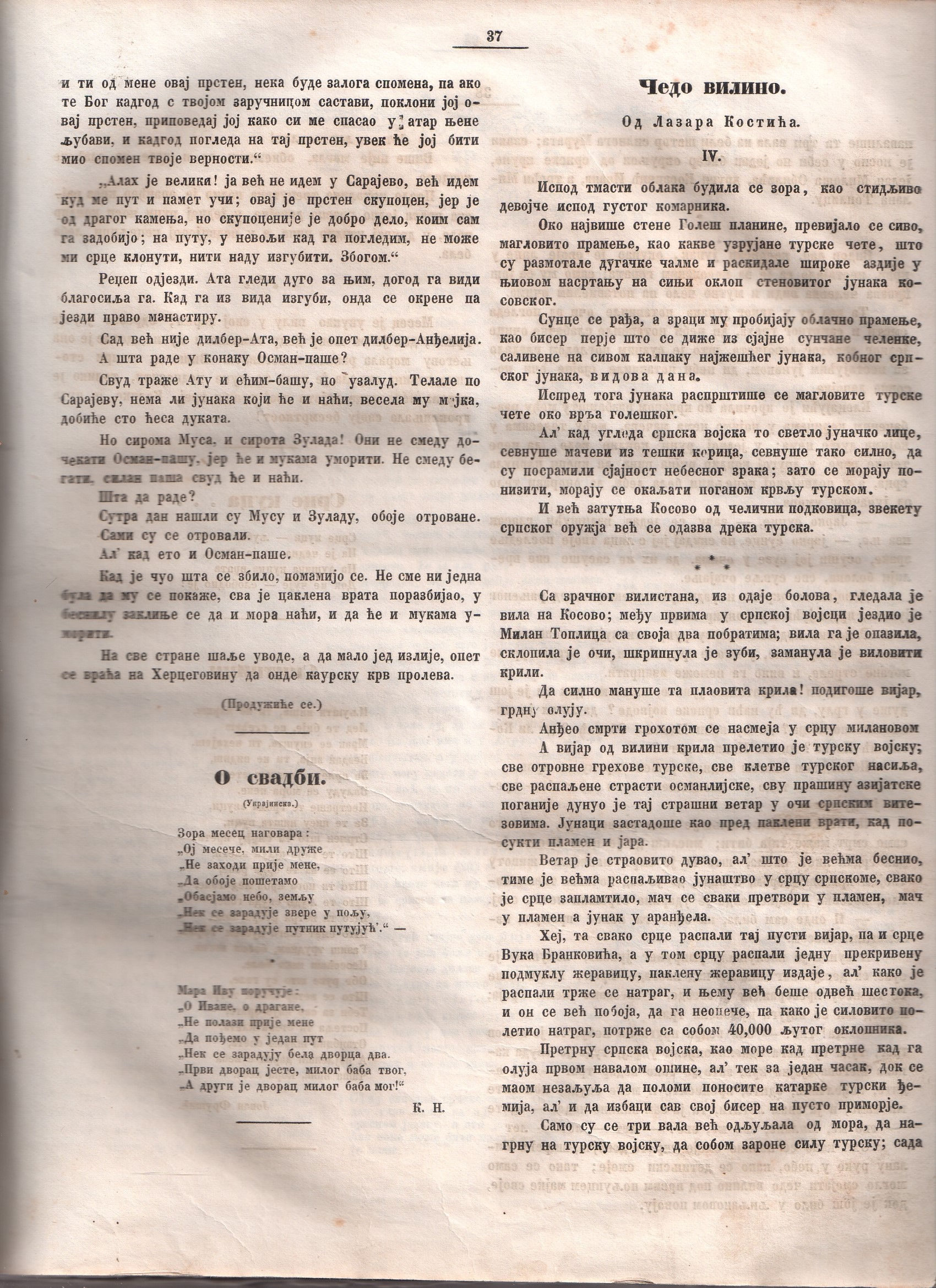 Javor magazine, 1862. Srpski (latinica): Čedo vilino od Laze Kosića, Javor iz 15. februara 1862, strana 37.